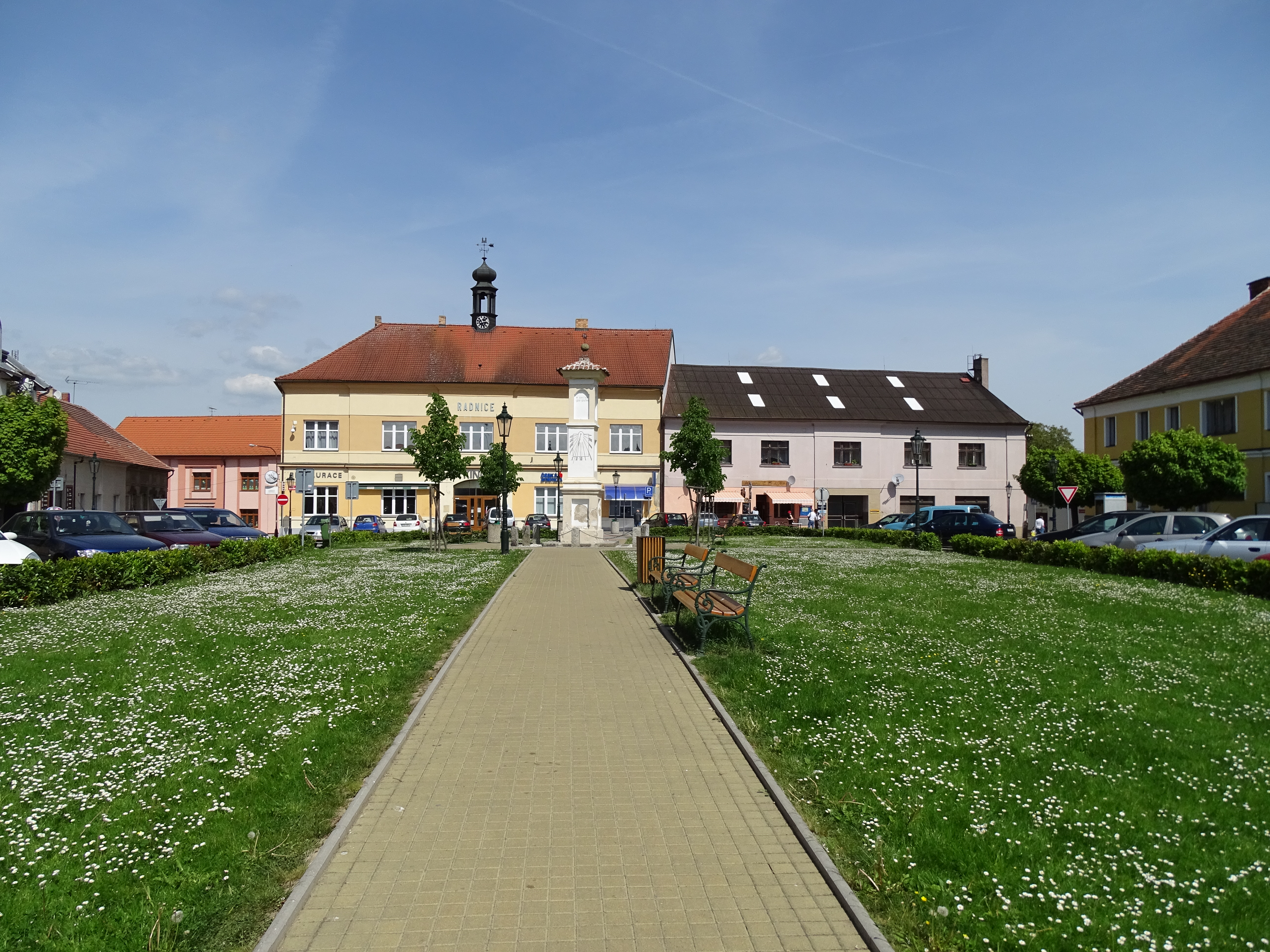 Neveklov, Benešov District, Central Bohemian Region, Czech Republic. Náměstí Jana Heřmana.